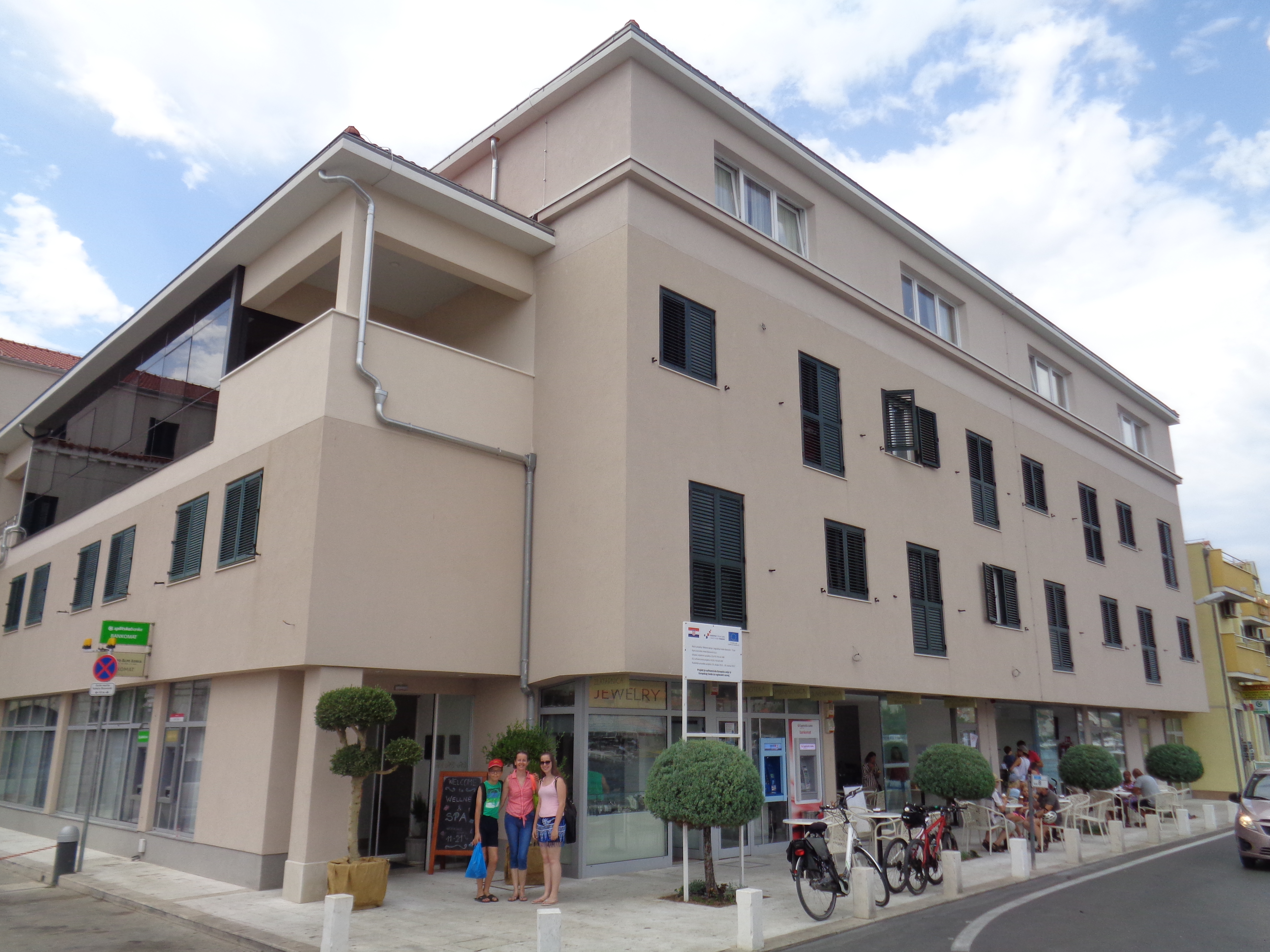 "Borovik" Hotel in Tisno, Šibenik-Knin County, Croatia